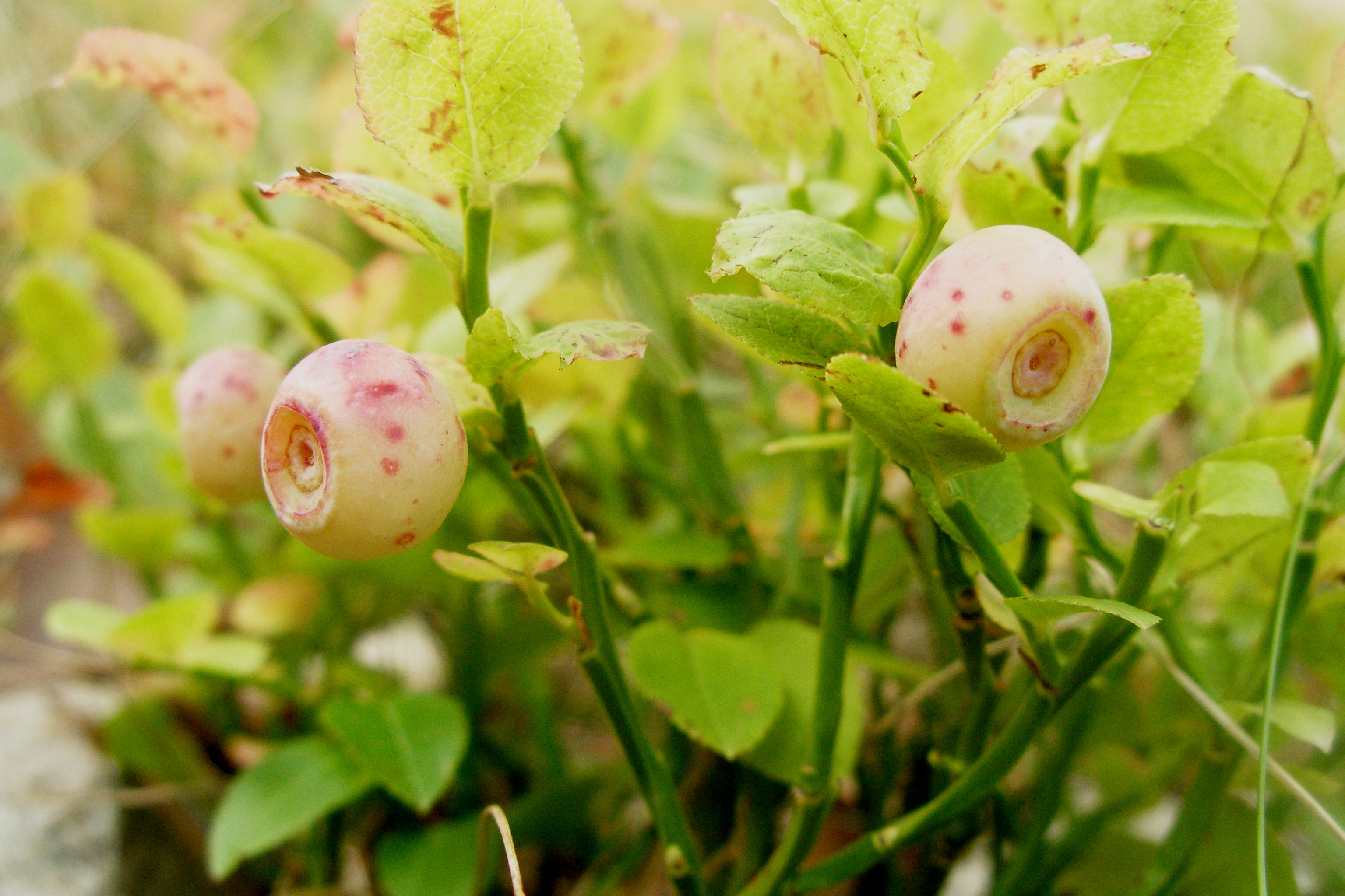 Whitefruit Myrtle Whortleberry (Vaccinium myrtillus var. leucocarpum)